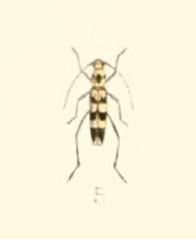 « Clytanthus pileatus » = Chlorophorus pileatus